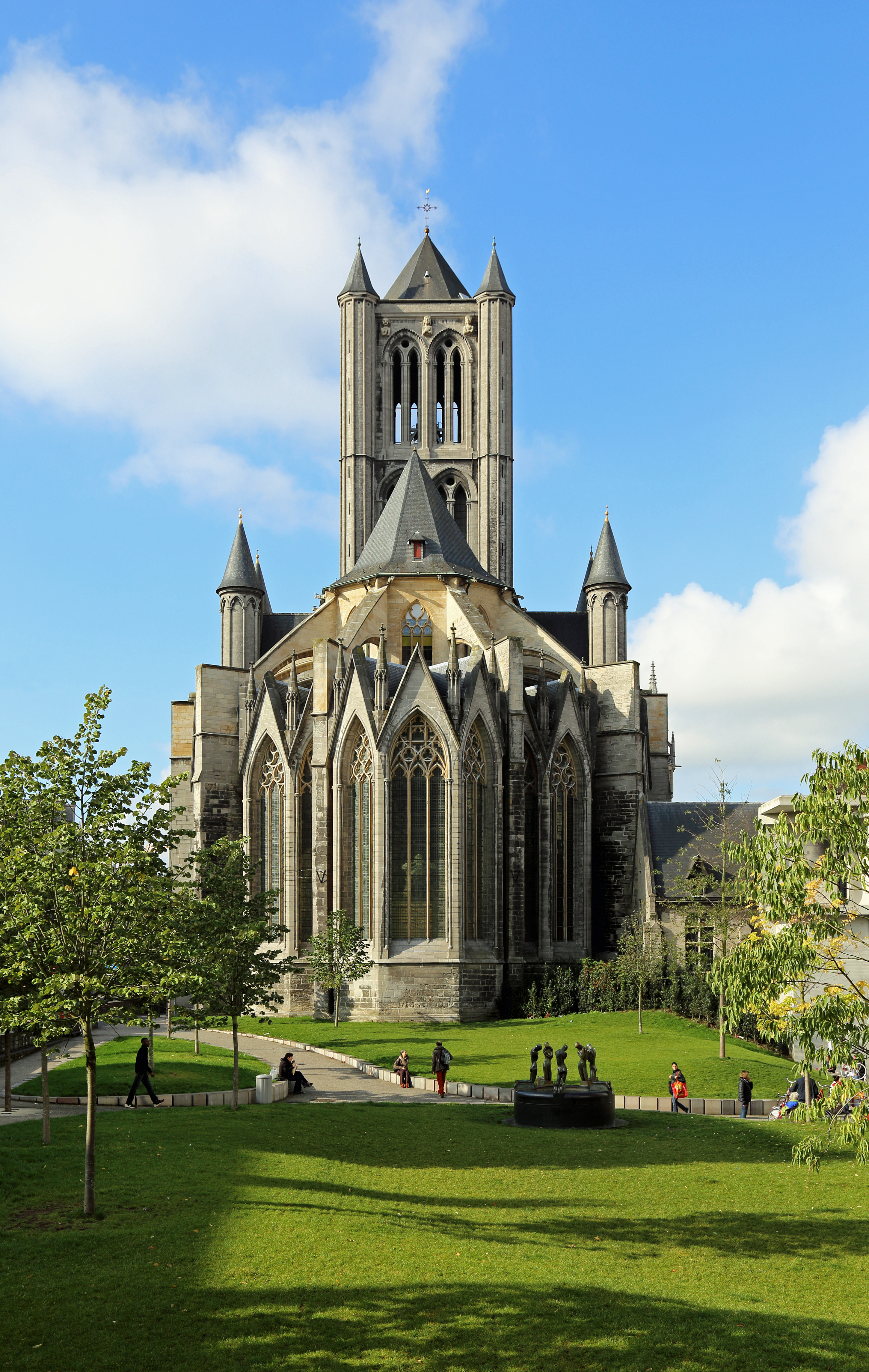 Ghent (Belgium): St Nicholas church